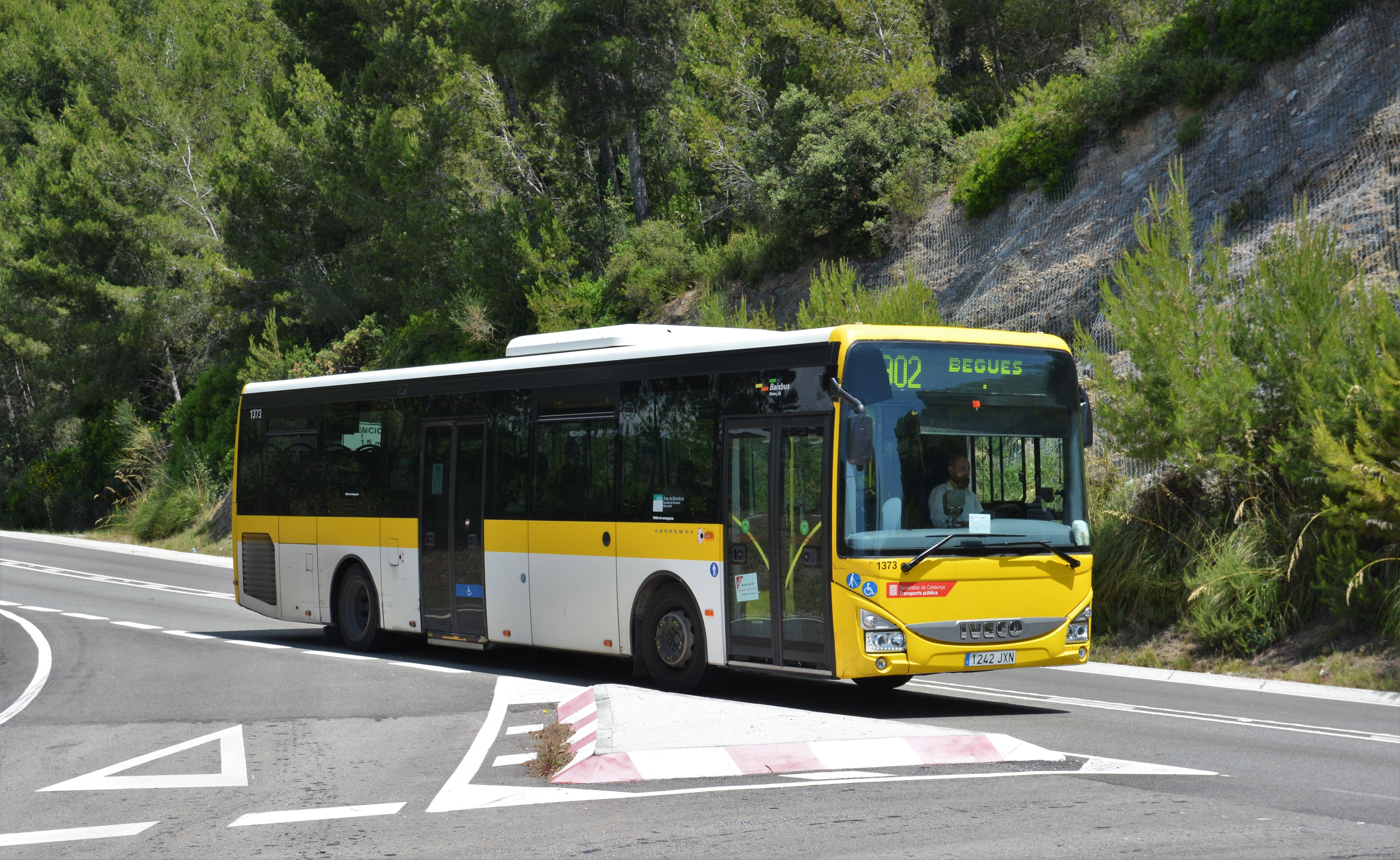 Bus 1373 of Mohn S.L. assigned to line 902 from Begas to Gavá, which is why it bears the red mark of Public Transport of the Generalitat de Catalunya.